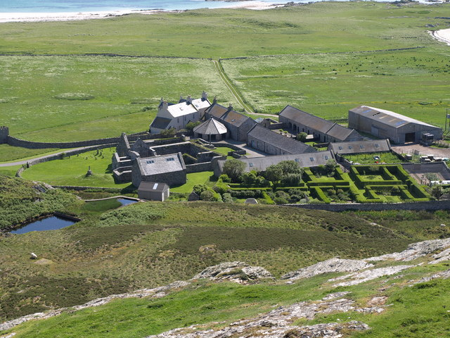 Oronsay Priory and Farm The Augustinian Priory, gardens and farm buildings on Oronsay, from the cliffs southwest of Beinn Oronsay